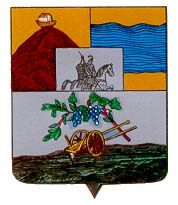 Ozurgeti coat of arms within the Russian Empire